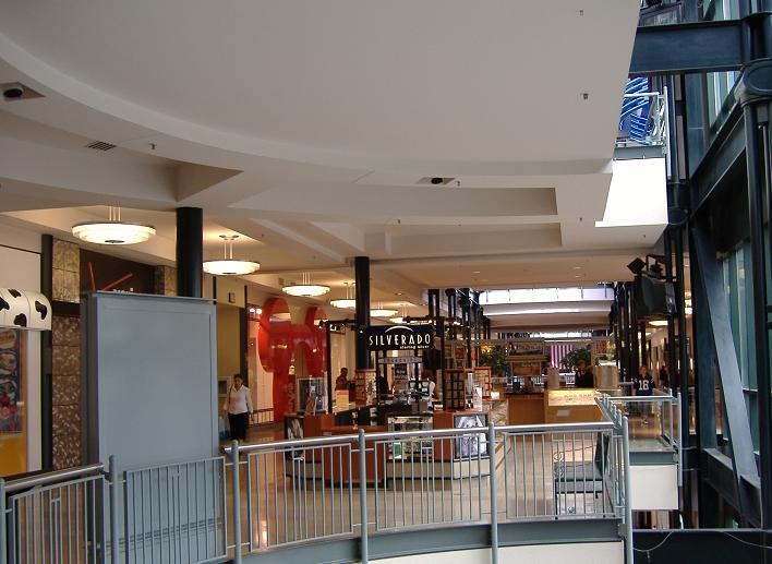 The interior of Circle Centre in Indianapolis, Indiana.